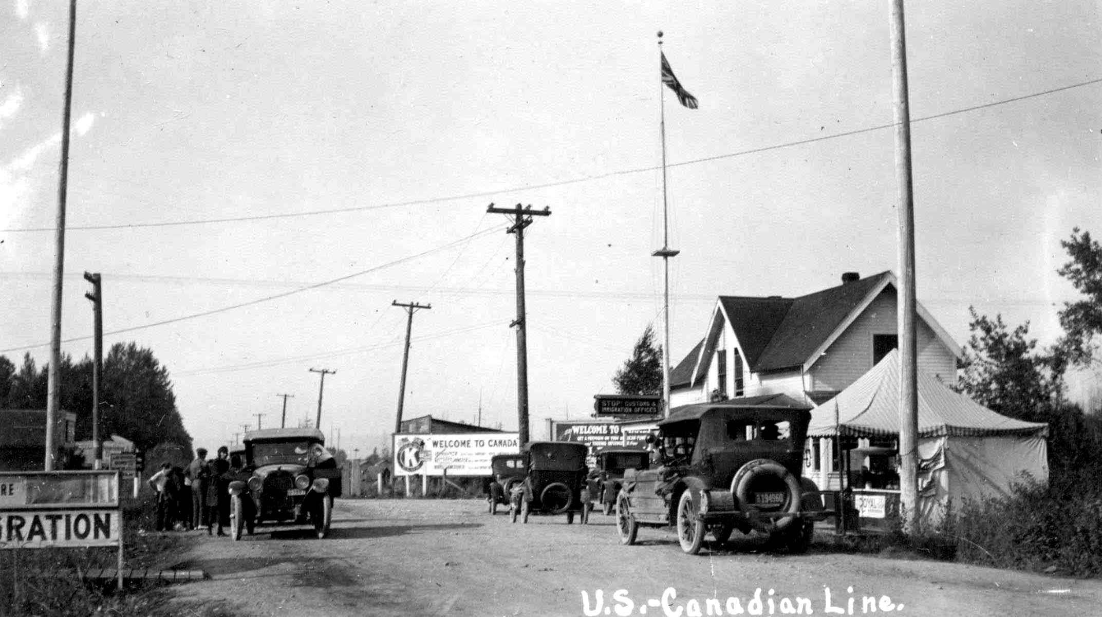 The US-Canada border at the Pacific Highway crossing as seen in 1921